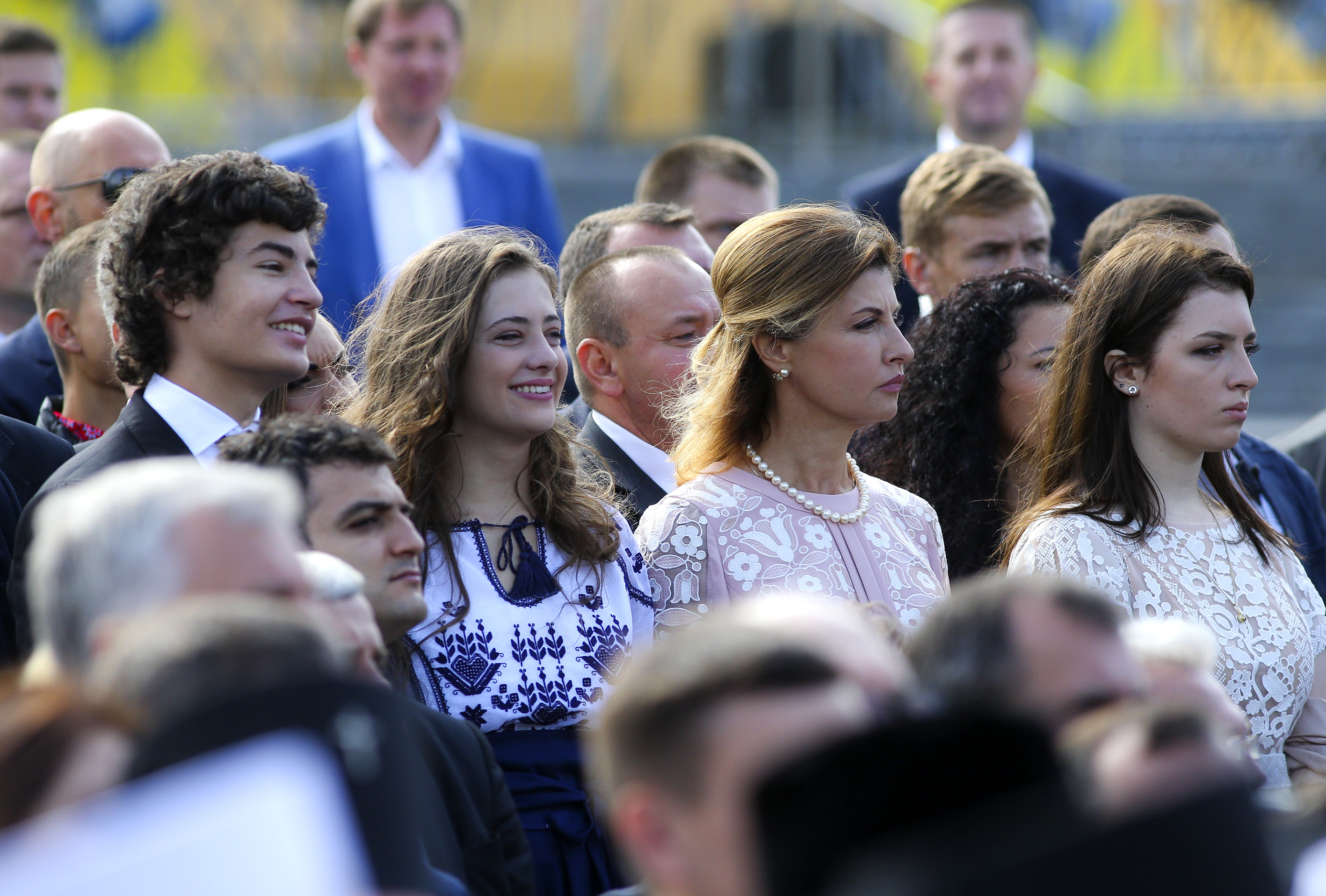 Independence Day military parade in Kyiv. August 24th, 2017